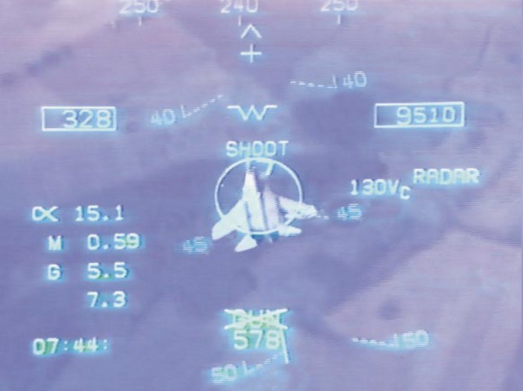 A German Mikoyan-Gurevitch MiG-29 Fulcrum of Jagdgeschwader 73 (73rd Fighter Wing) caught with the gun camera of a U.S. Navy McDonnell Douglas F/A-18C of attack squadron VFA-82 Marauders over Germany in September 1998.